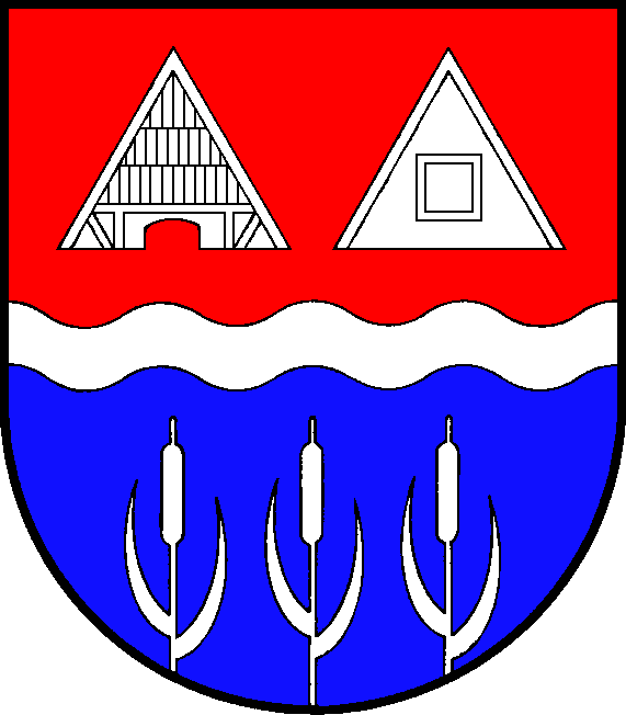 Coat of arms of the municipality Wattenbek in Schleswig-Holstein, Germany.